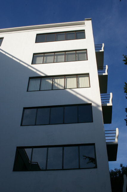 Highpoint 1 apartments, with balconies in profile, Highgate, London. Modernist movement design: Berthold Lubetkin; engneering: Ove Arup; built in 1935.